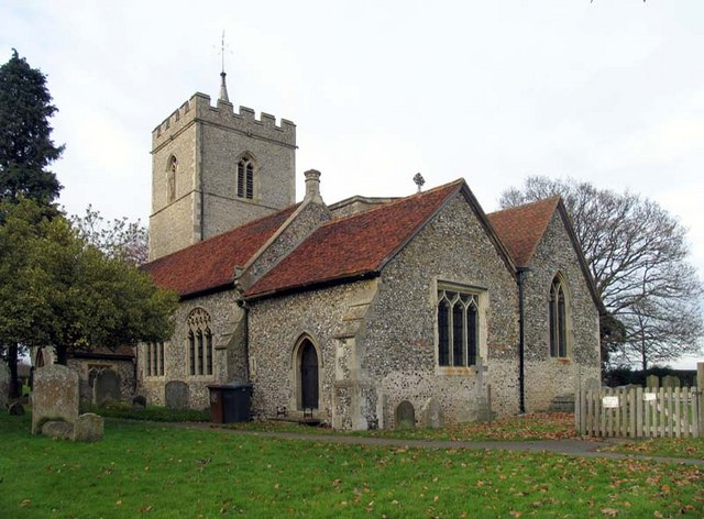 St Giles, Codicote, Herts